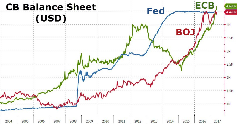 Recreation of a well-known chart from BIS data of the G3 central bank balance sheets: FEB, ECB and the BOJ